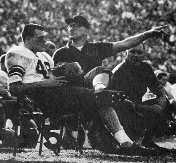 Syracuse University football coach Ben Schwartzwalder and quarterback Dick Easterly, during their December 5, 1959 game against UCLA.